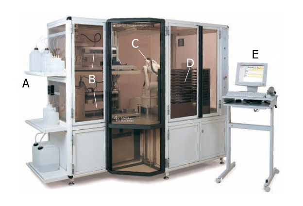 Spot cutting robot of Amersham Deutscher Text aus dem Bild: A - Chemikaliereservoire B - Roboter für das Ausschneiden von Spots und das Pipettieren C - Industrieroboter für Zureichungsaufgaben D - Gelablage E - Steuerungsablage English Translation: A - Chemical reservoirs B - Robots for the excision of spots and the pipetting C - industrial robot for aid work D - Gel tray E - storage controller